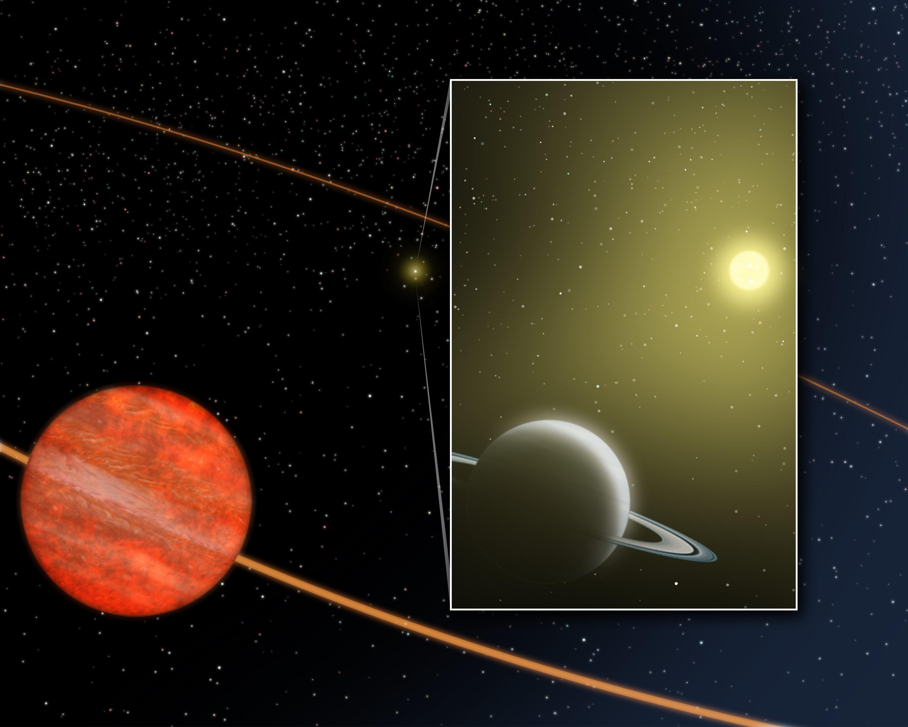 This is an artist's concept of the star HD 3651 as it is orbited by a close-in Saturn-mass planetary companion and the distant brown dwarf companion discovered by Spitzer infrared photographs. The Saturn-mass planet was discovered through Doppler observations in 2003. Its orbit is very small, the size of Mercury's, and is highly elliptical. The gravity of the distant brown dwarf companion may be reponsible for the distorted shape of the inner planet's orbit.